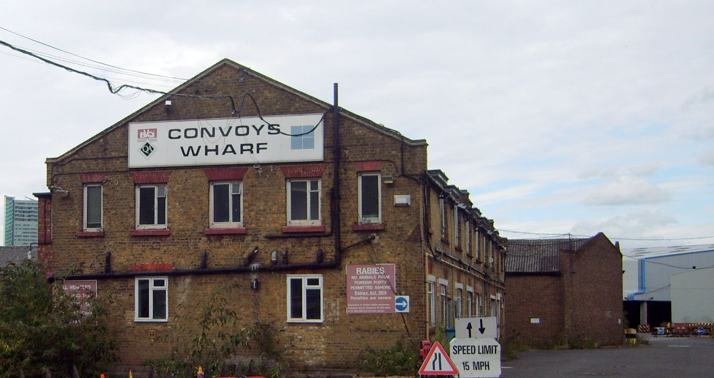 Convoy's Wharf in Deptford. The site of Deptford Royal Dockyard.